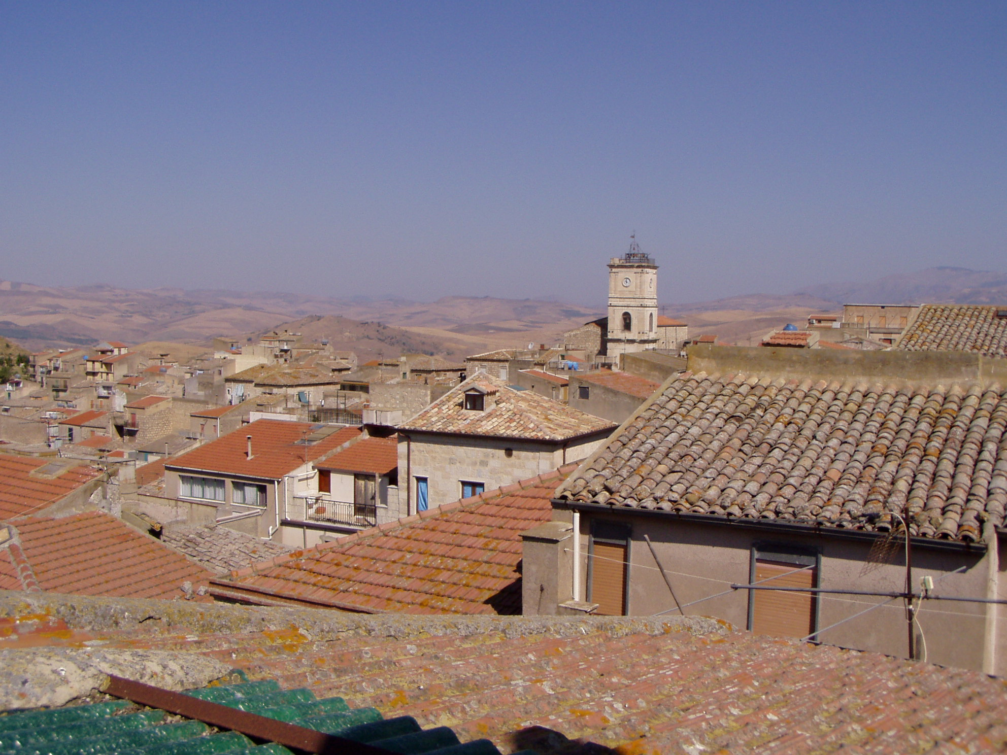 Roofs of Alimena, Sicily